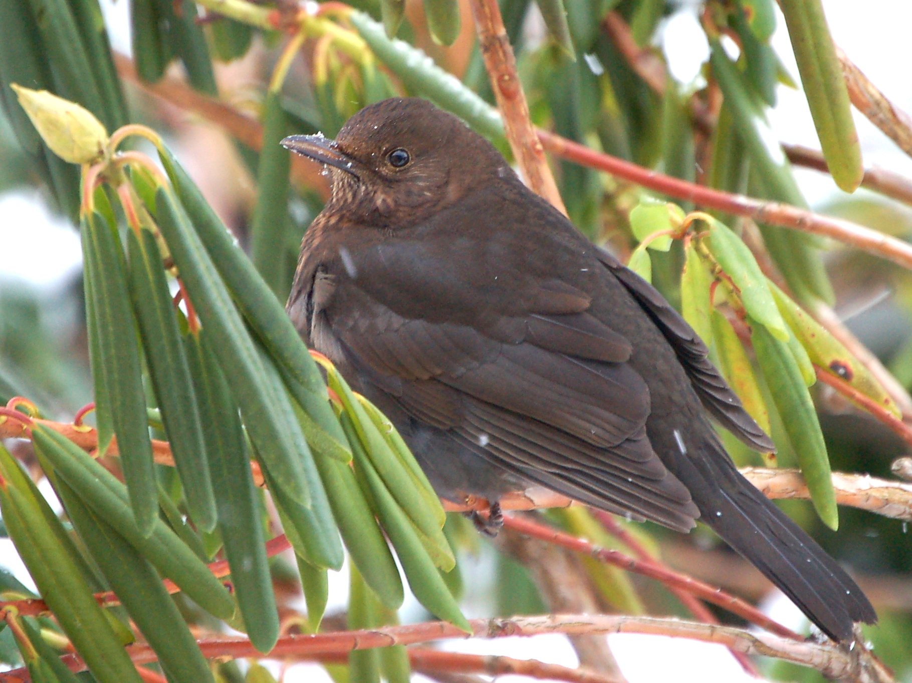 The Common Blackbird, Turdus merula, Female, Larvik, Norway, January 30